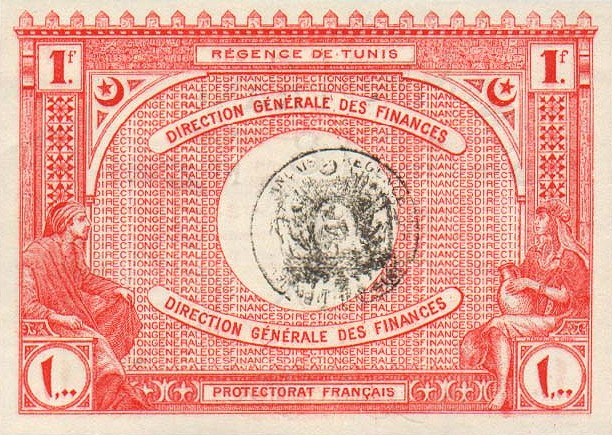 1 franc banknote issued in 3 mars 1920, Tunisia.